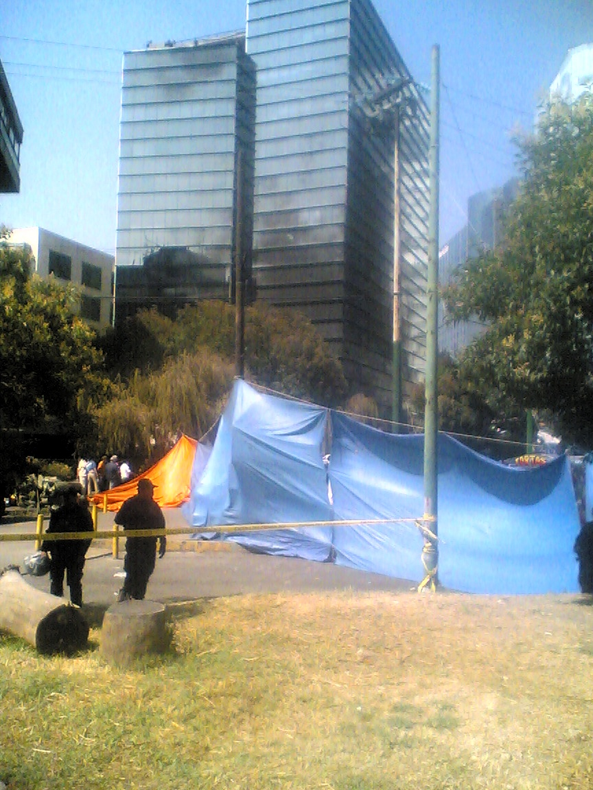 Mexican police guard the site of the 2008 Mexico City plane crash, burned buildings in background.